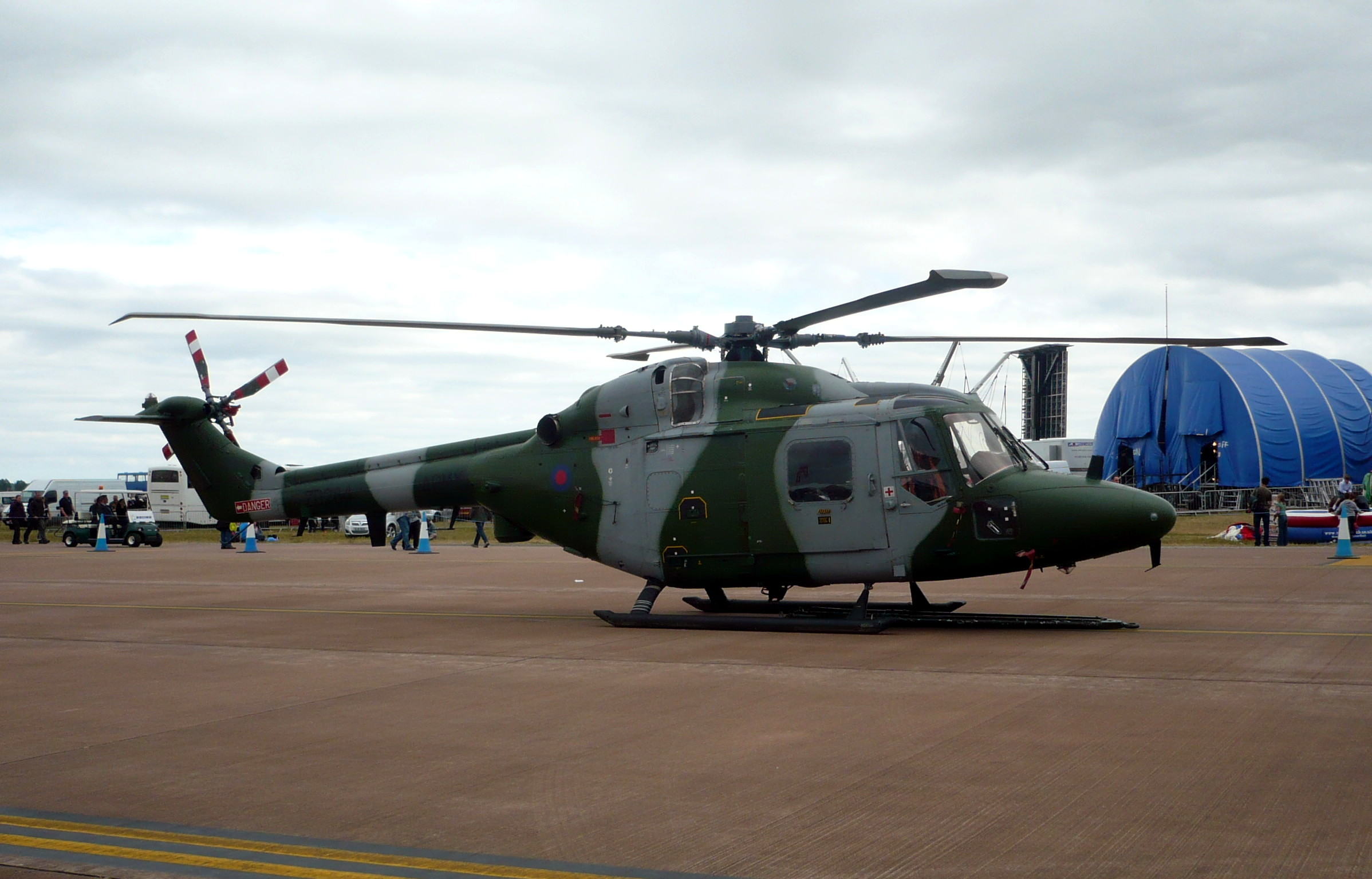 Army Air Corps Westland Lynx AH.7, ZD284, at RIAT 2010.